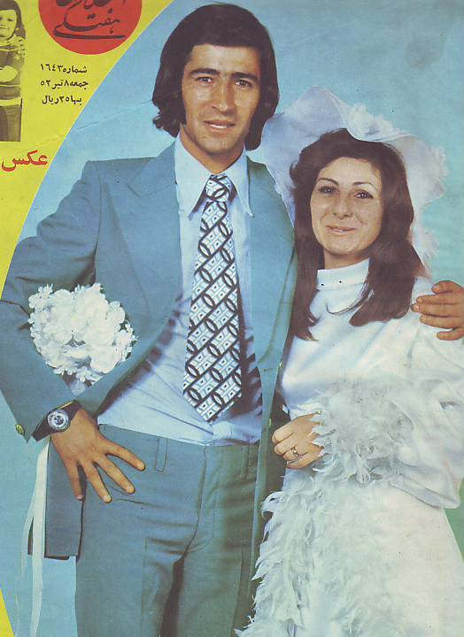 "Nasser Hejazi", famous ex-goalkeepr of then-"Taj" (and after 1979 revolution, "Esteghlal") soccer club and Iranian National soccer team, posed with his bride on the cover of «Weekly Ettelaat» magazine.